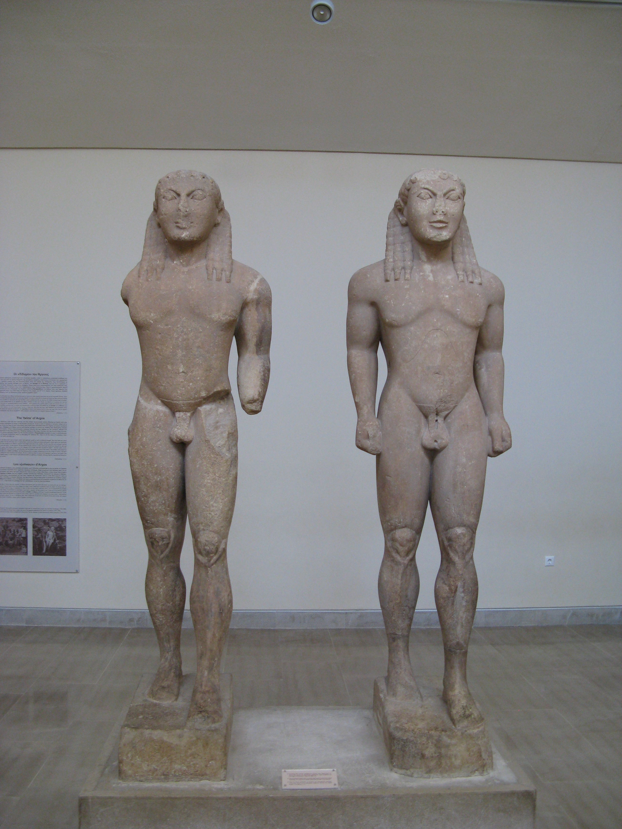 Life size marble statues of Kouroi. They were formely known as Kleobis and Biton, but are nowadays considered to represent the Dioscuri, the sons of Zeus, Begining of 6th c BC. Location: Archaeological Museum of Delphi.